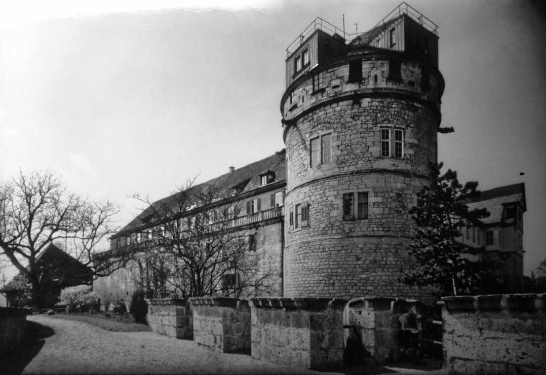 Astronomical observatory on the northeastern castle tower of Tübigen (Germany)